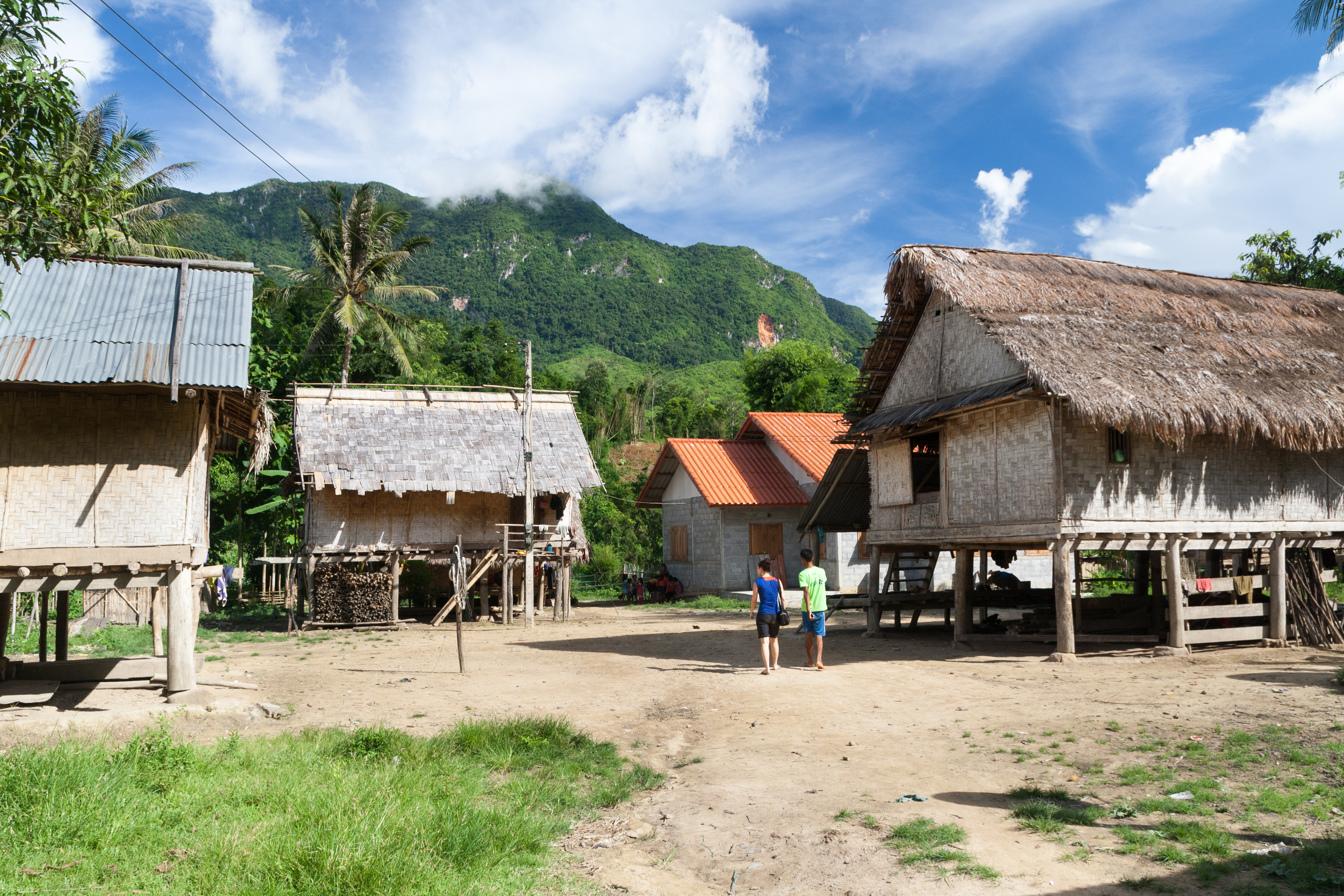 Traditional stilt houses in Na Luang village, close to Nong Khiaw, Luang Prabang Province